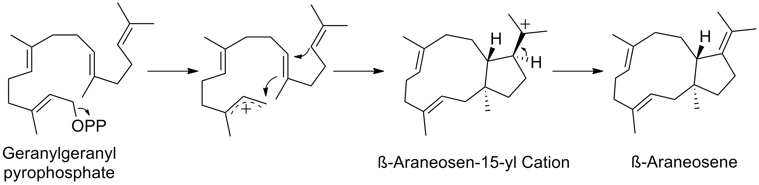 Biosynthesis of beta-Araneosene